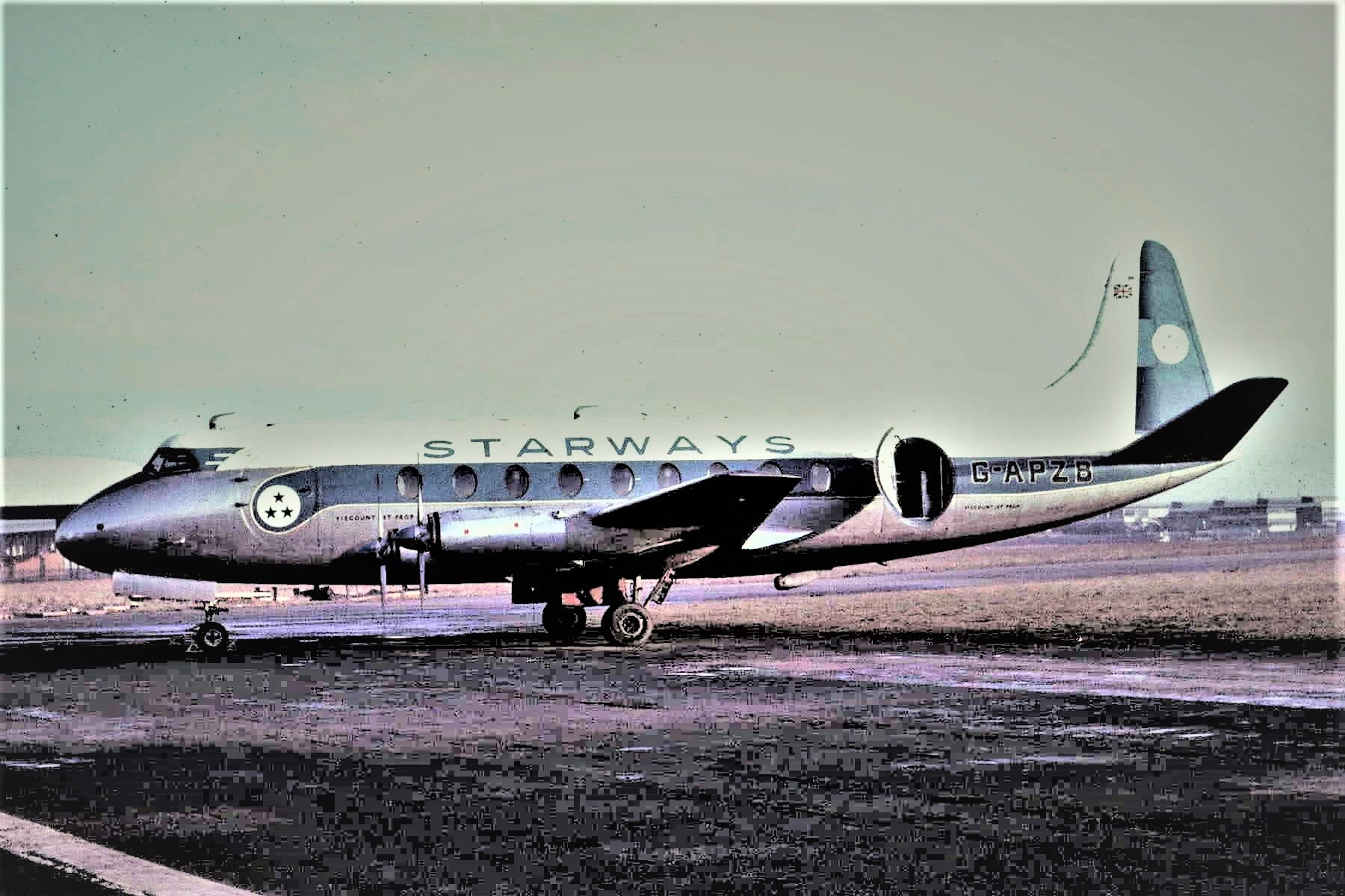 A picture of an airplane (name of it is on the file name).